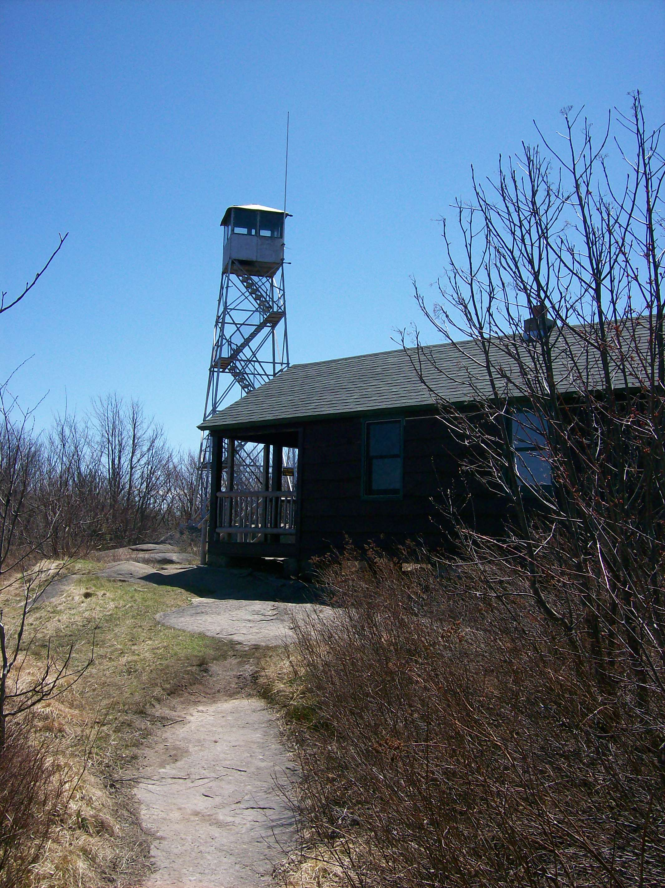 I took this photo.